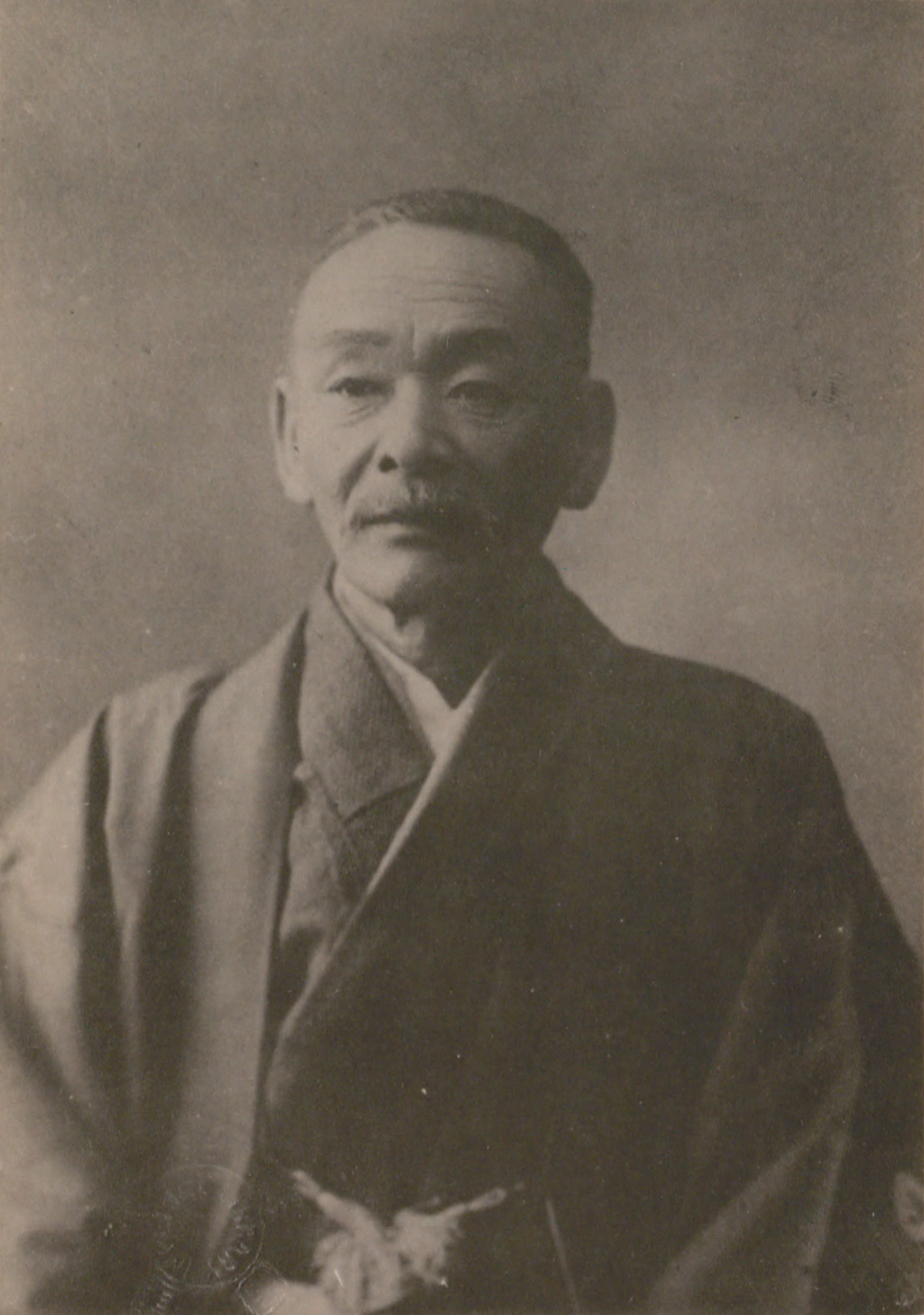 Portrait of Nishi Tokujiro (西徳二郎, 1847 – 1912)